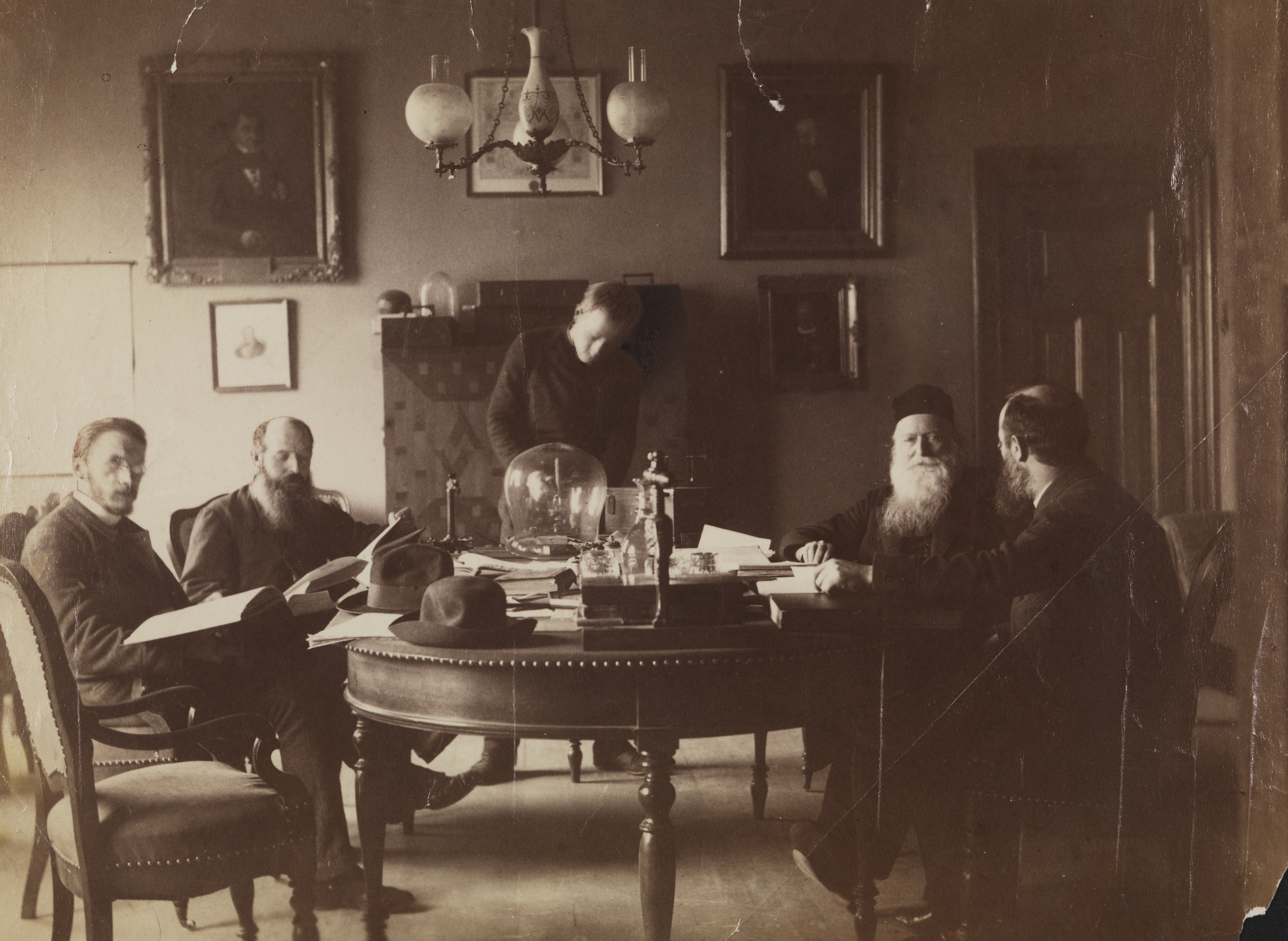 Part of the science faculty at the Bergen Museum. From the lefthand side: Jørgen Brunchorst, natural scientist and politician, director of Bergen Museum; Gerhard Armauer Hansen, chief physician and natural scientist; Fridtjof Nansen as a student (and scientist) of zoology; Daniel Cornelius Danielssen, chief physician, executive director of the museum and member of the Norwegian Parliament; Herman Friele, merchant and zoologist.